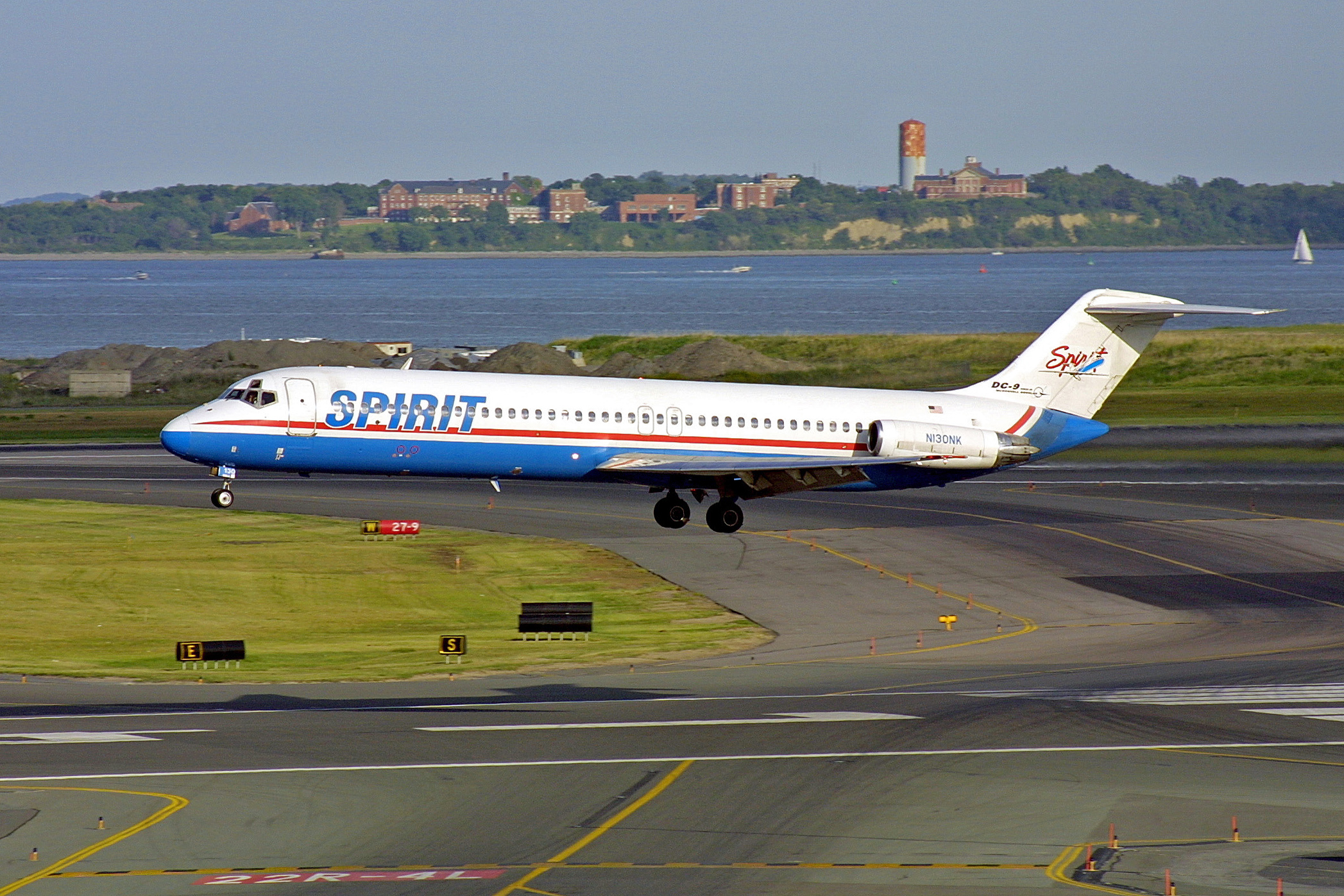 Spirit Airlines - old colors - lands at Logan Airport Boston, Massachusetts.